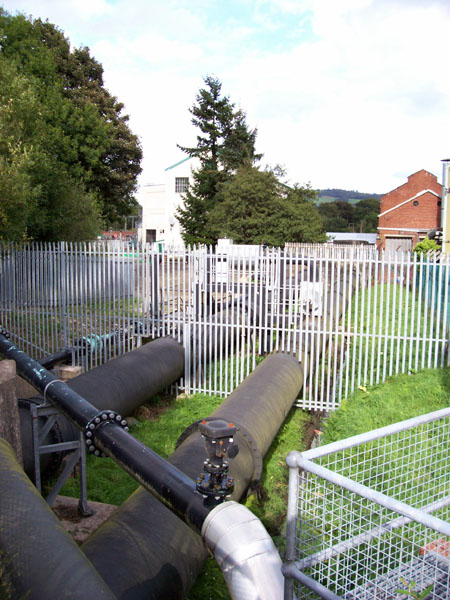 Water Pipelines The Dolgarrog hydro-electric power station was originally opened in association with the adjacent aluminium works for electrical smelting. A number of high, hanging valleys collect water for the scheme which now sells electricity on the spot market.